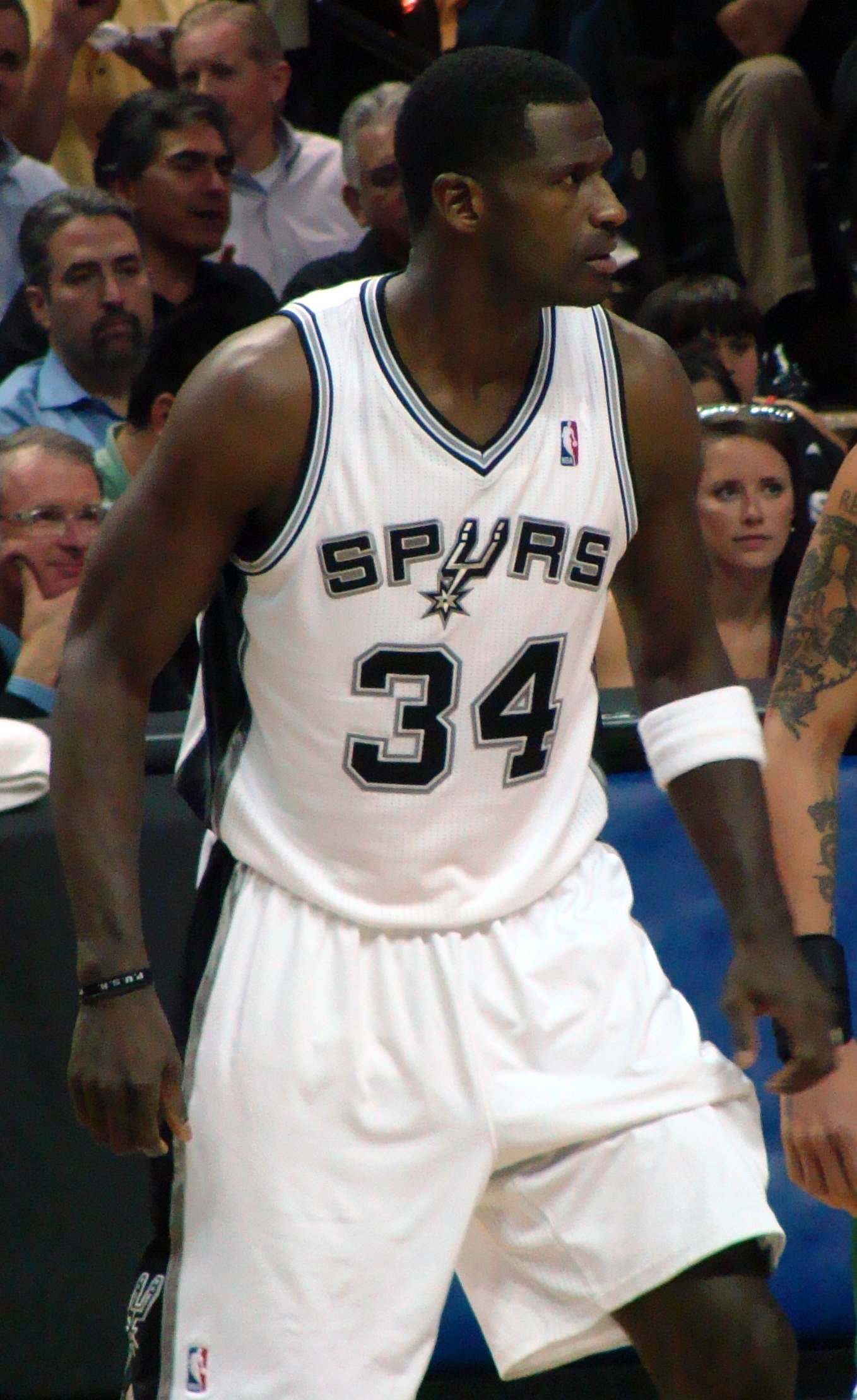 Antonio McDyess of The San Antonio Spurs, against The Boston Celtics, March 31, 2011.